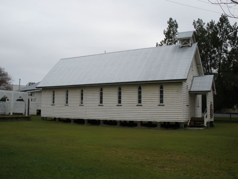 St Andrews Presbyterian Church, Esk